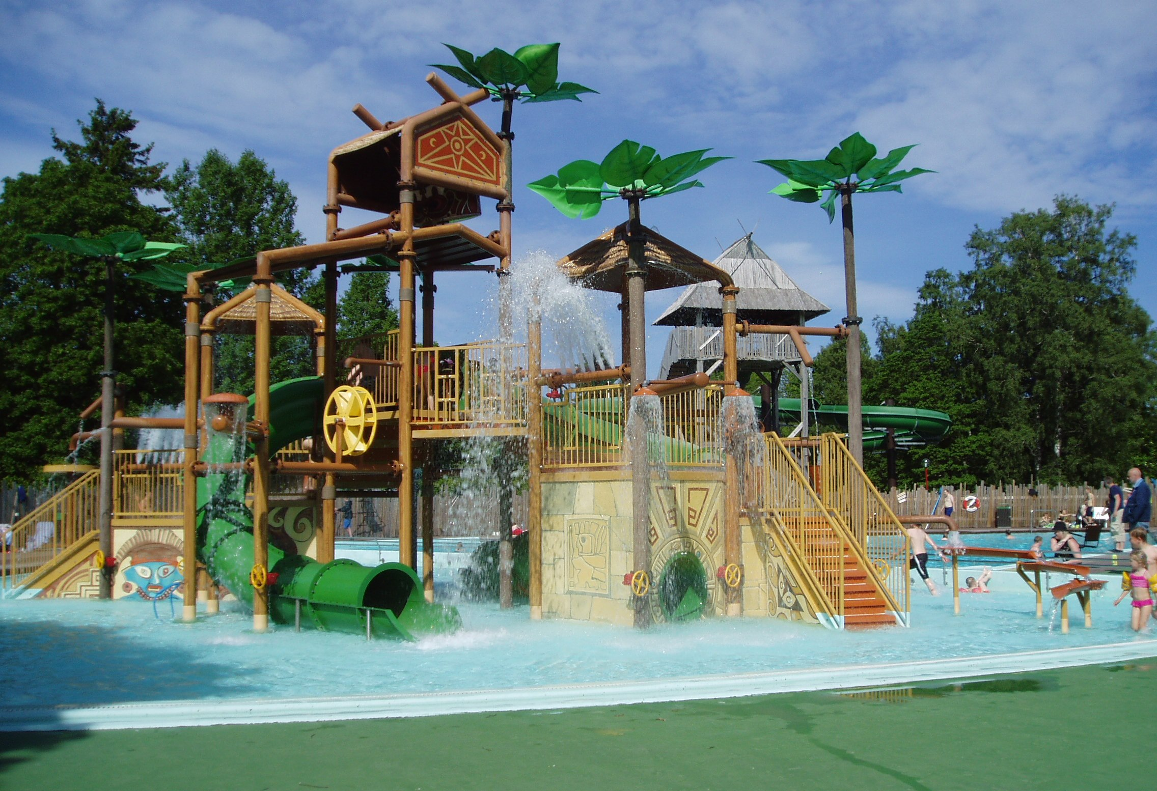 Pool at Furuviksparken, Sweden